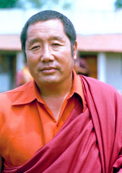 Photo of HH Drubwang Padma Norbu (Penor Rinpoche) taken at Namdroling Nyingmapa Monastery, Byallakuppe, district Mysore 1981